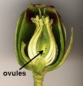 Location of ovules inside a flower Modified from: thumb|left|Flower section of Helleborus foetidus by Simon Garbutt, available through Wikimedia Commons